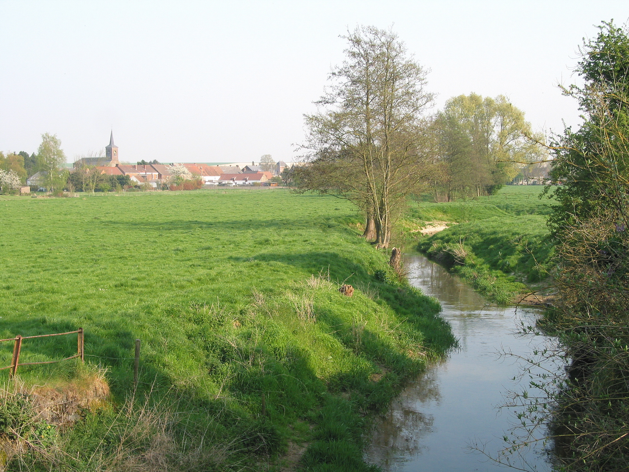 Harmignies (Belgium), the village and the Trouille river viewed from the bridge of the Harveng road.